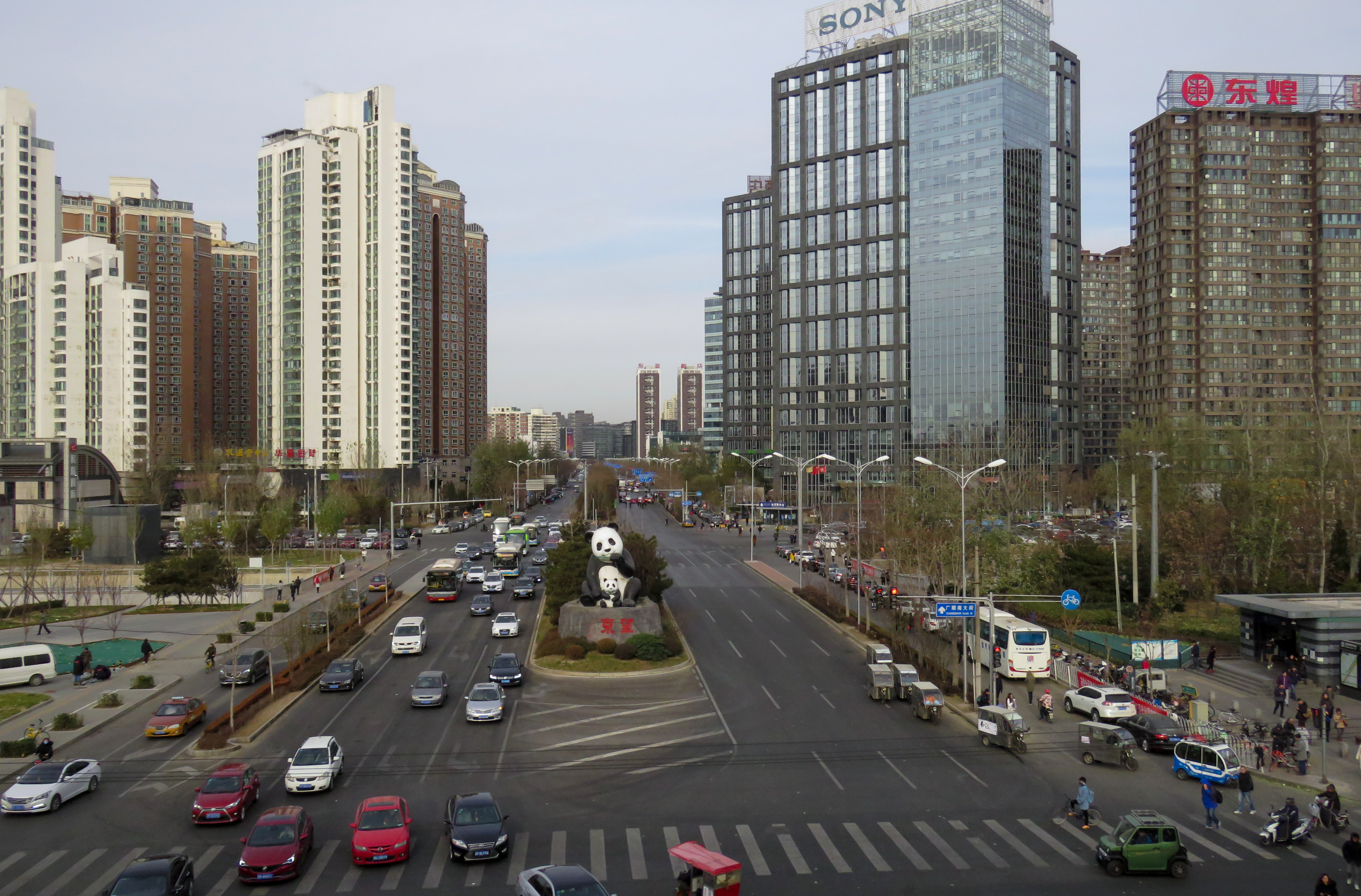 Wangjing South from Airport Line. Unfortunately no interchange, and there isn't even anything like Tung Chung Line in Beijing.